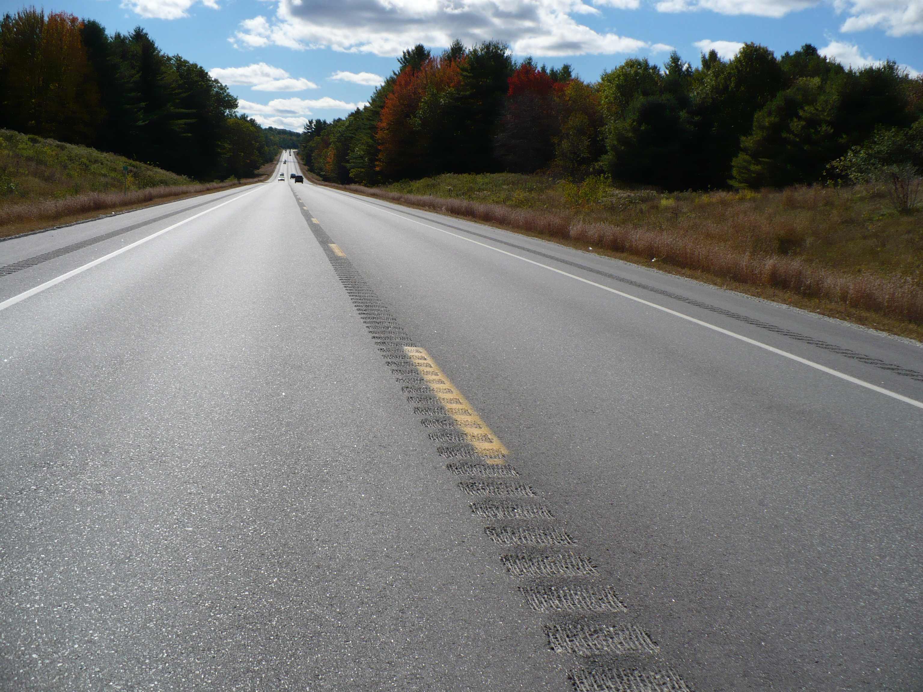 Centerline rumble strip, as well as at edge of roadway, located in Henniker, New Hampshire on Rt. 202.